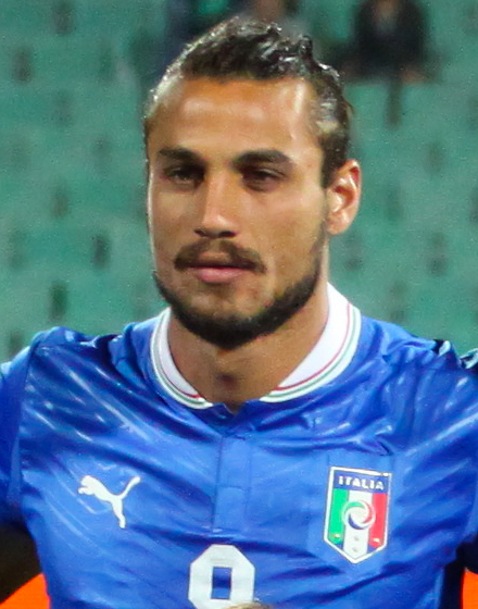 Pablo Daniel Osvaldo before the football game with Bulgaria, "Vasil Levski" stadium, Sofia, Bulgaria, September 7, 2012